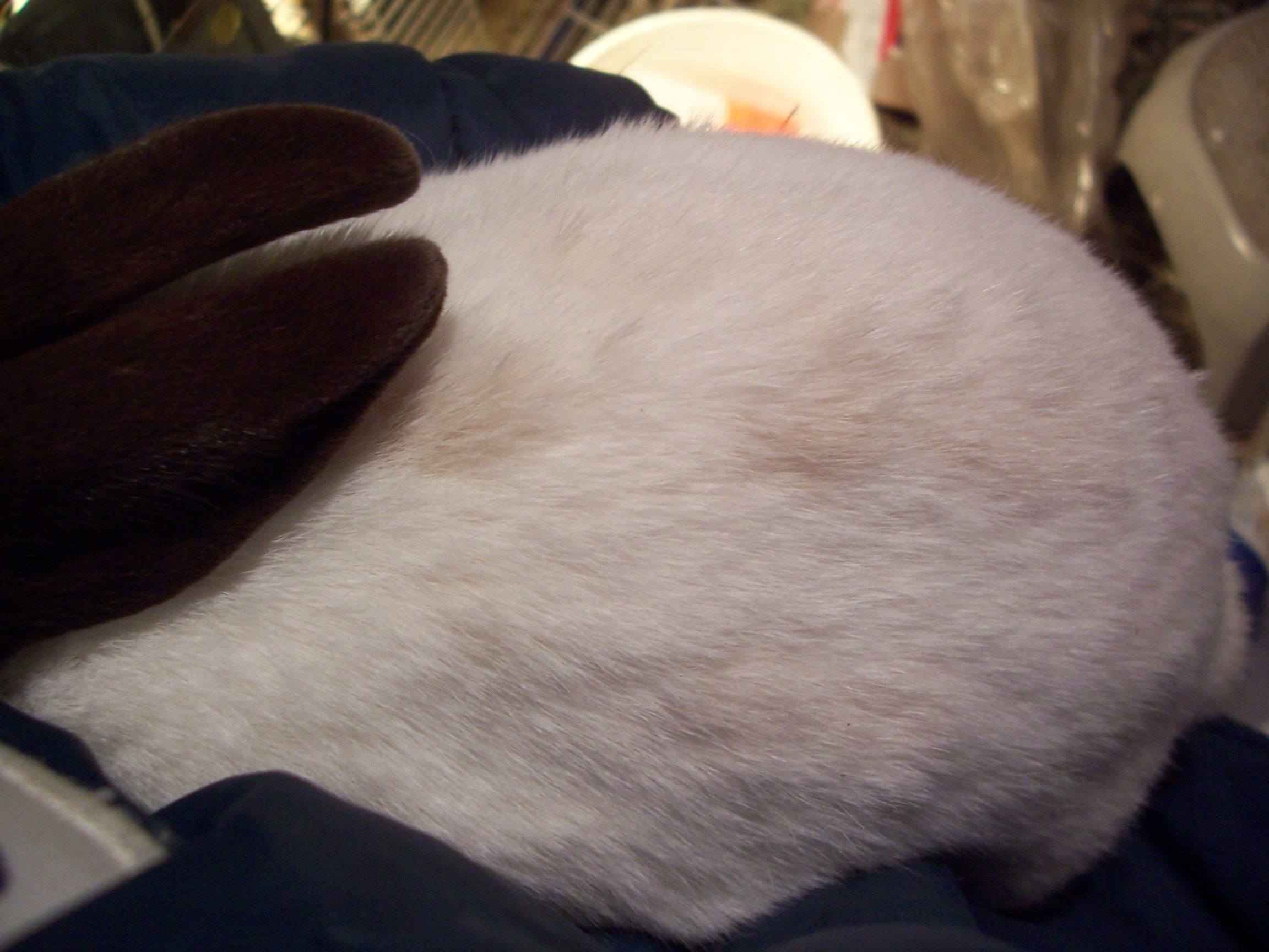 In cold weather, it is common for Himalayan rabbits to grow darker hairs in the middle of a white section. This is known as "smut." This rabbit is showing smut, which would disqualify it in a show. Photo by Liberty Acres Rabbitry.